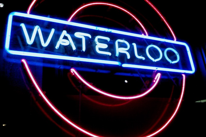 Taken from flickr, released by user Beard Papa under CC-BY-SA license. Original @